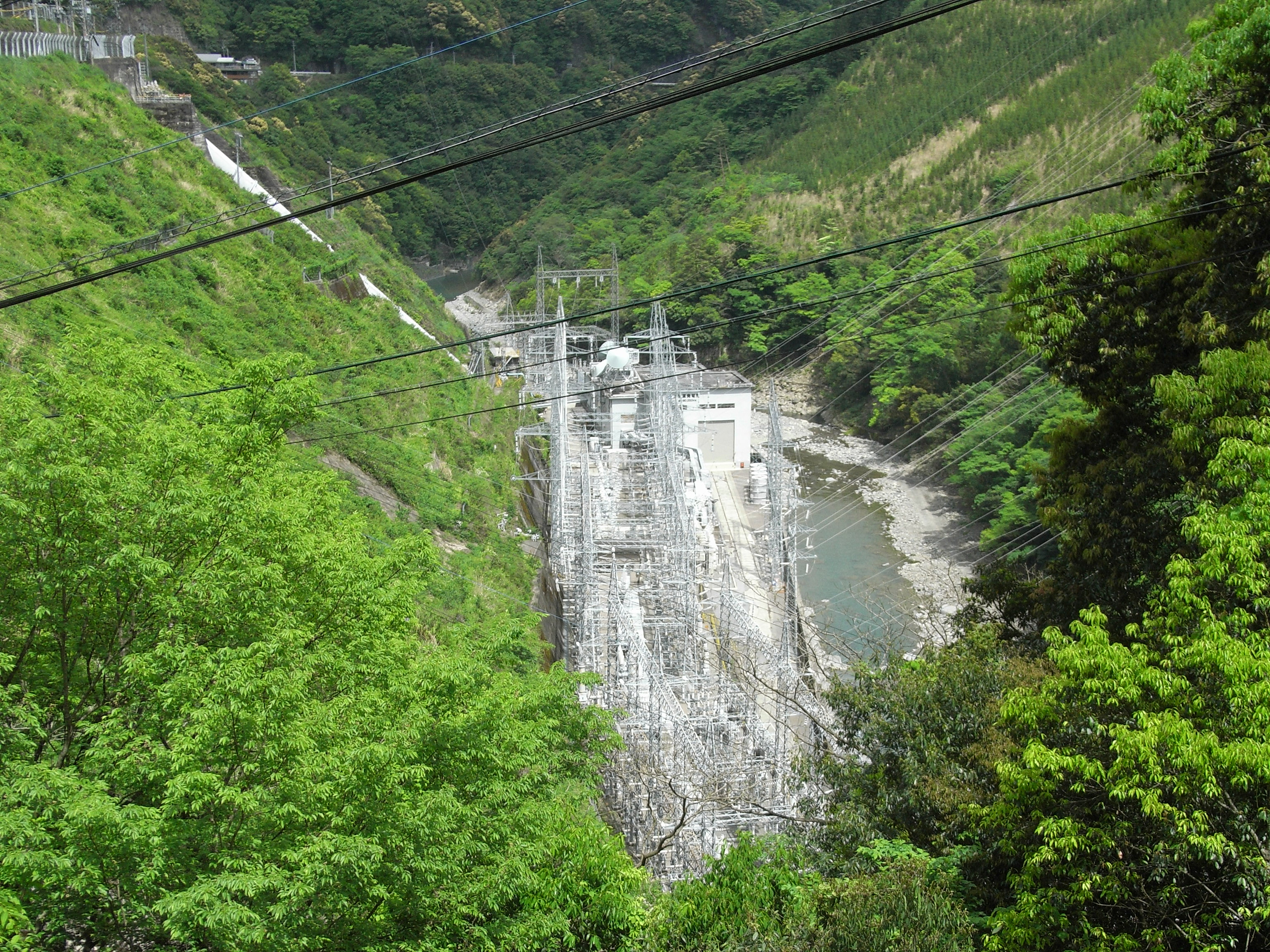 Hydroelectric powerplant